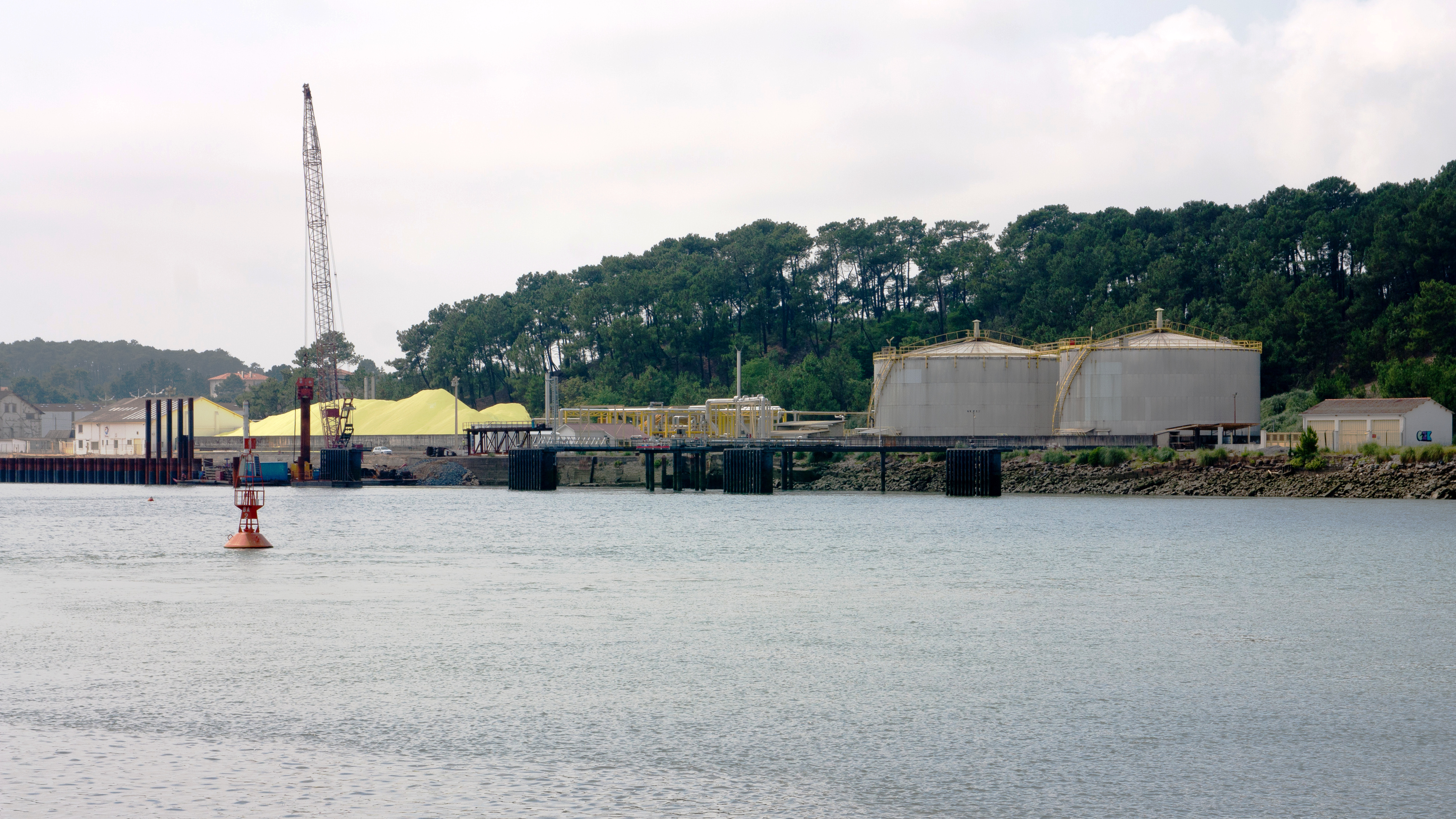 Sulfur still extract from Lacq gas is always exported by ship.